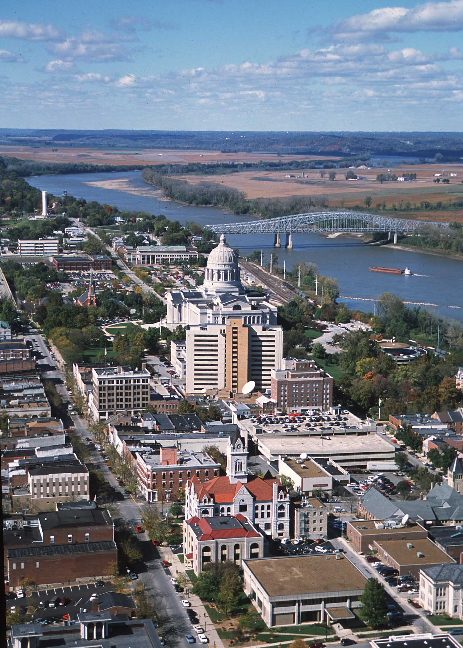 Jefferson City, Missouri and the W:Missouri River